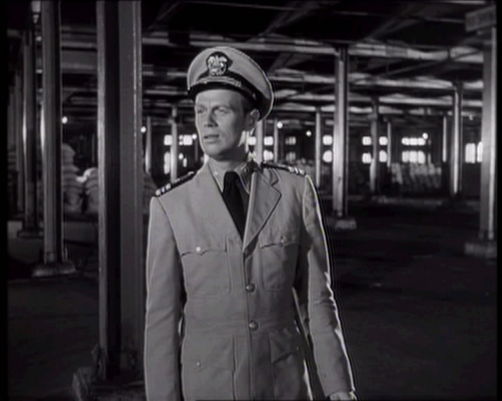 Panic in the Streets is a black and white, 96-minute film directed by Elia Kazan and released in 1950 by 20th Century Fox. It is film noir semidocumentary shot exclusively on location in New Orleans, Louisiana.